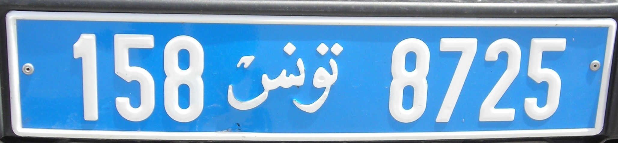 Tunisian license plates